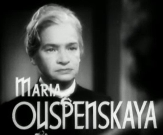 Cropped screenshot of Maria Ouspenskaya from the trailer for the film Waterloo Bridge